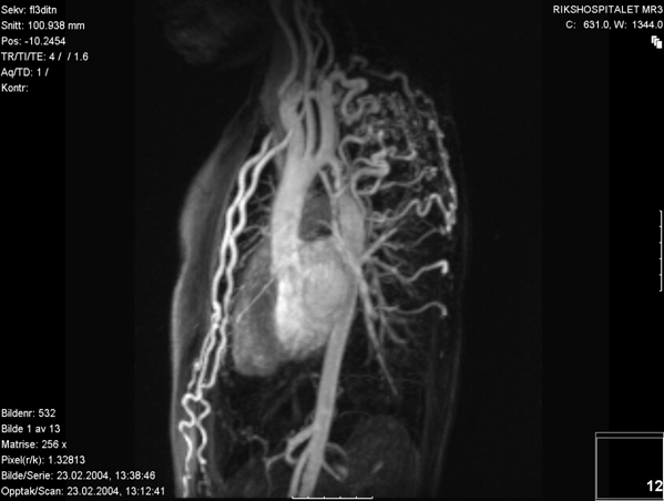 MRI-picture of coarctatio aortae with collaterals. Picture released with consent of my employer